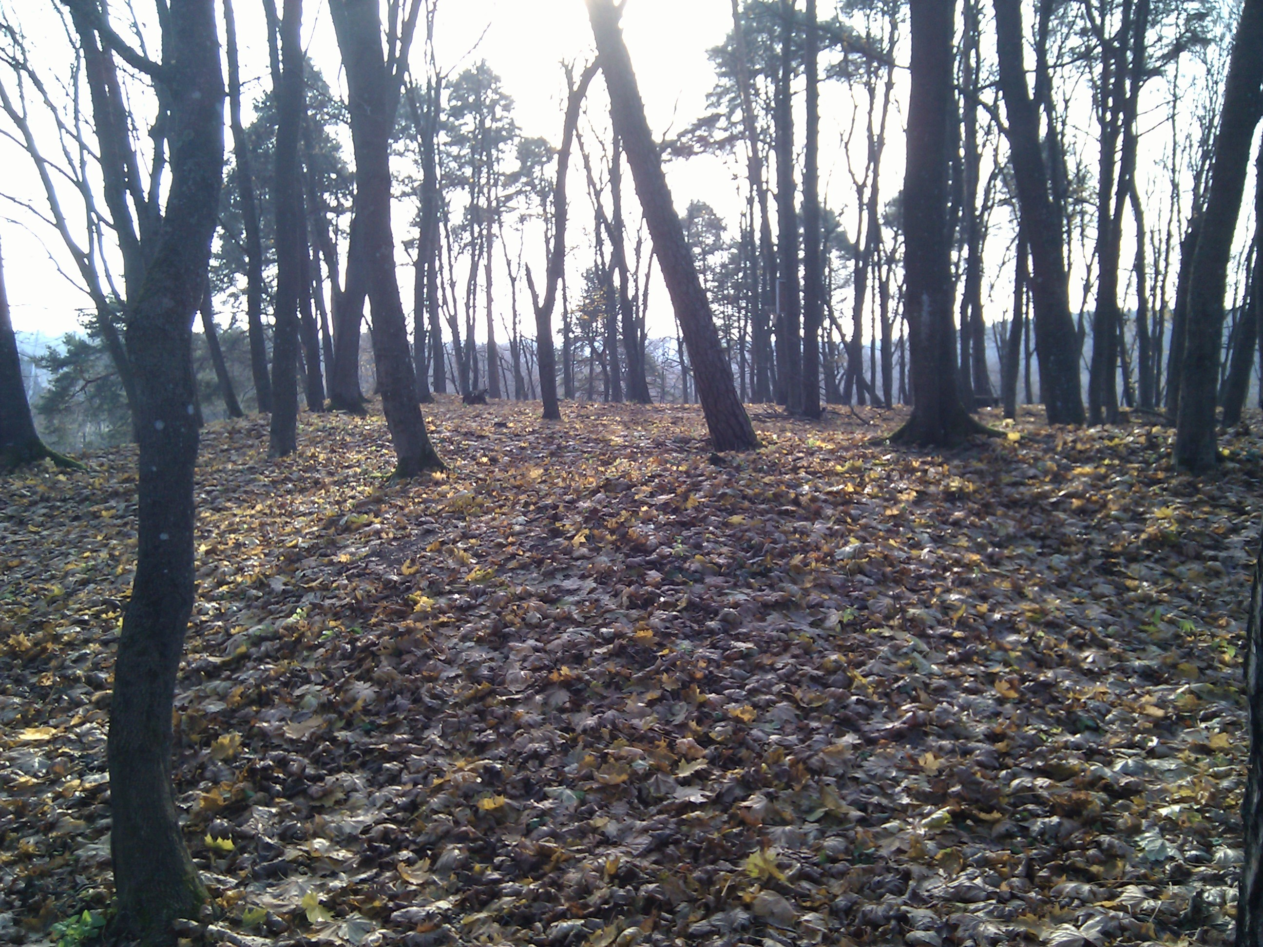 On the Pilaite hillfort